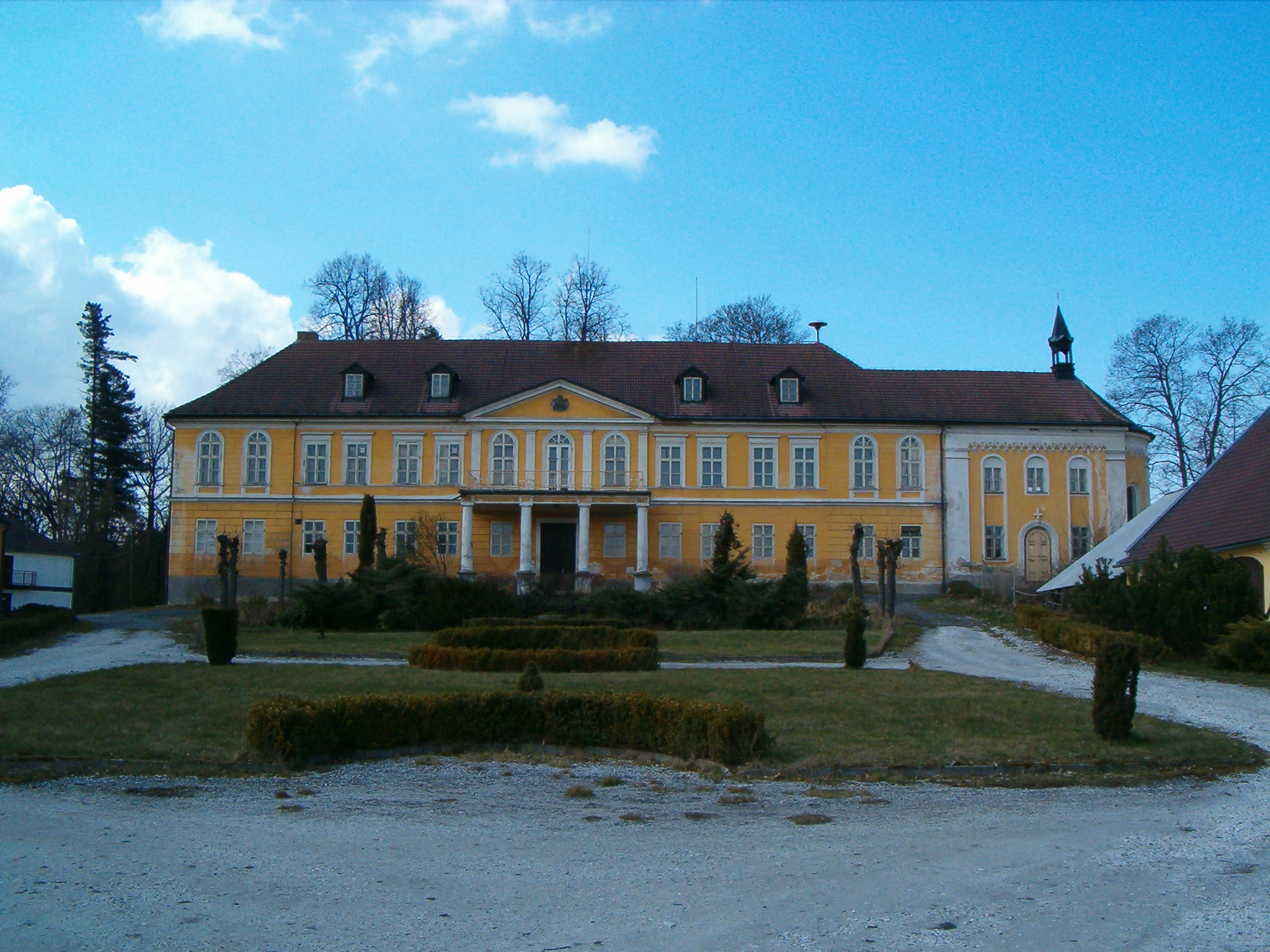 Castle in Čekanice, part of Blatná)